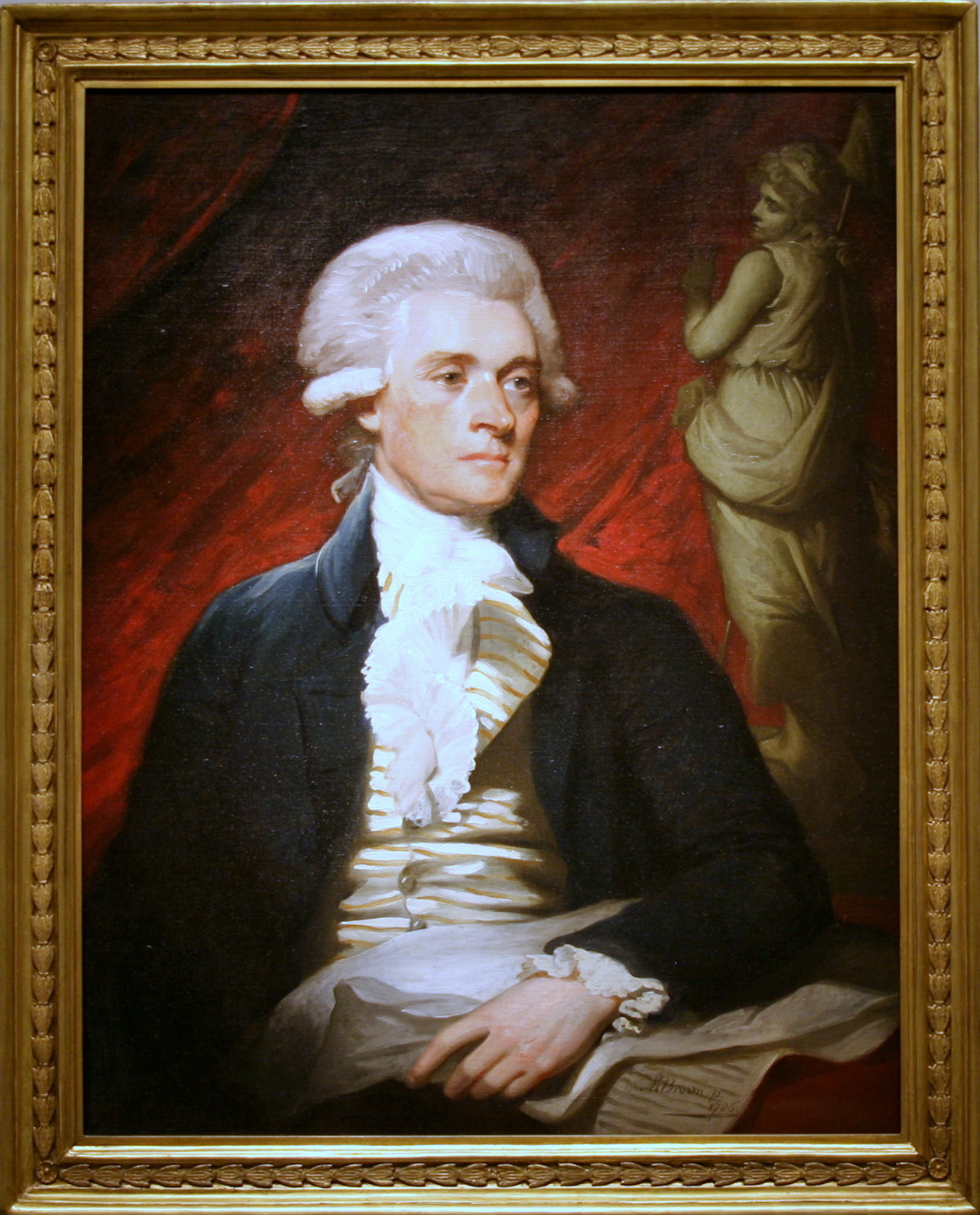 Oil on canvas painting of Thomas Jefferson; size without frame 91.4×71.1 cm.